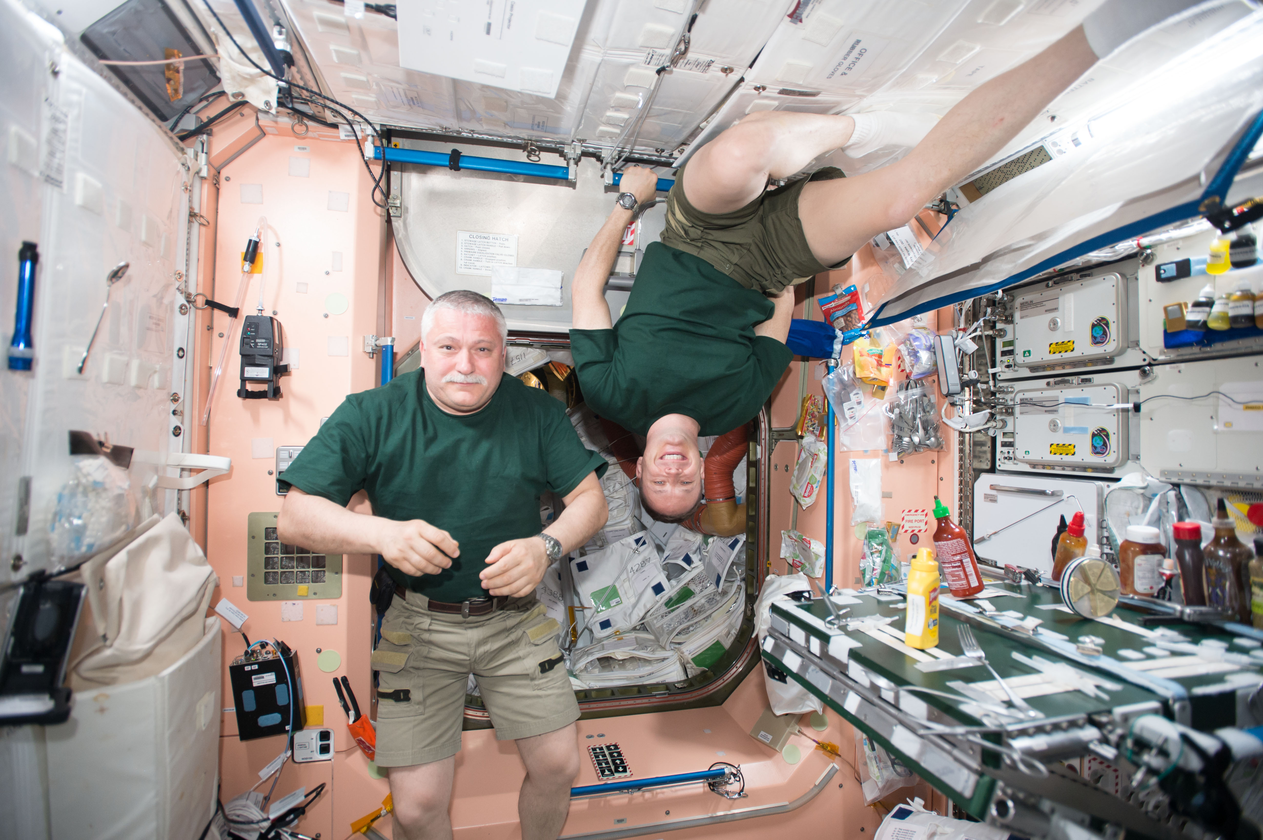 Expedition 51 crew members Fyodor Yurchikhin (left) and Jack Fischer take a break during mealtime in the Unity module.